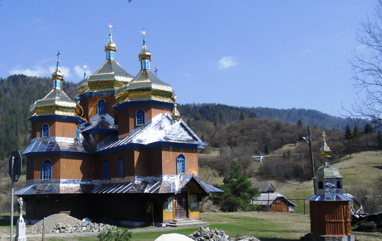 Wooden church of St.. Nicholas (1926), Kozyova, Skole district